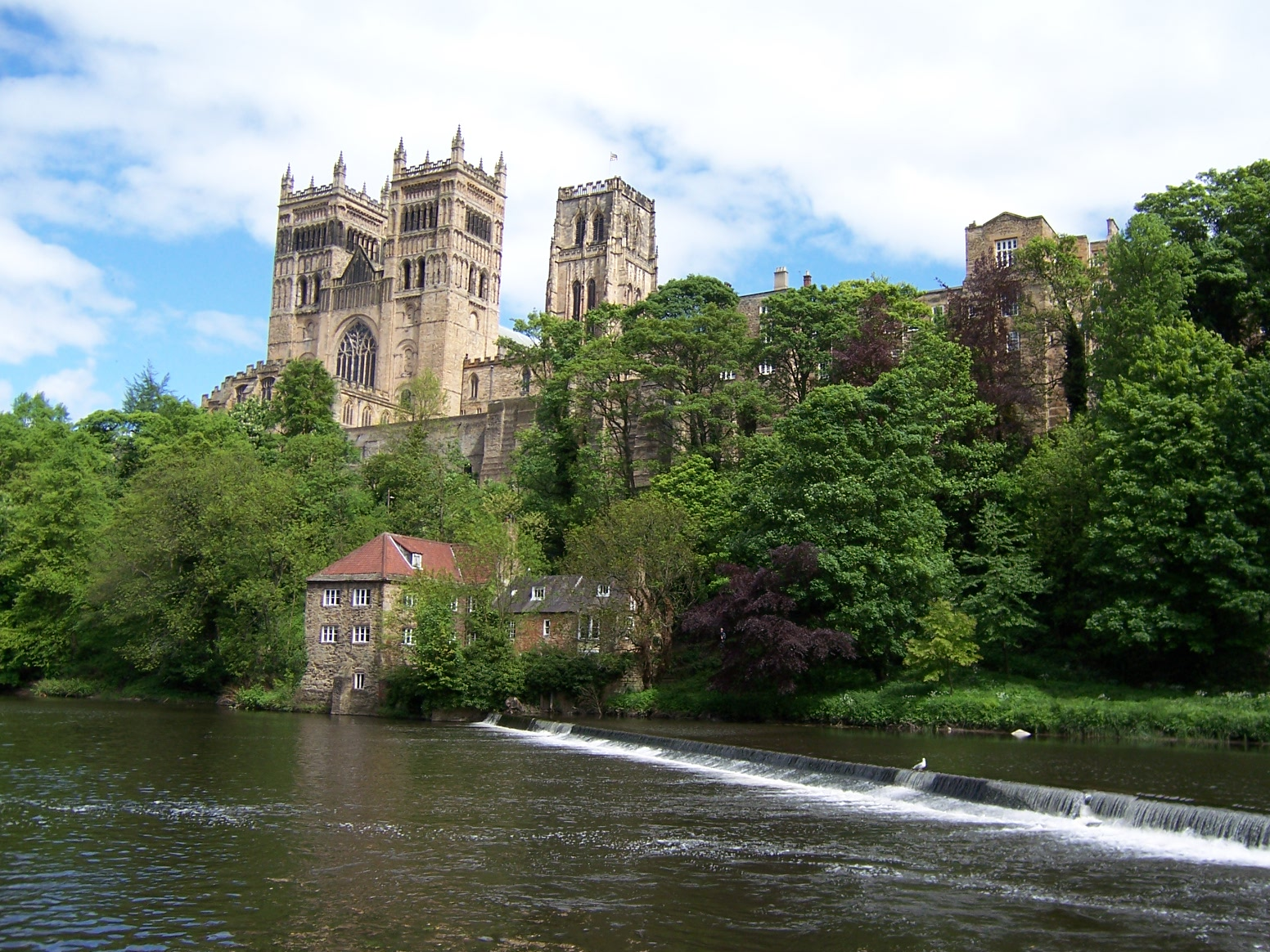 Durham Cathedral as seen from the River Wear (Durham, England) own work; photo taken on 28 May 2006